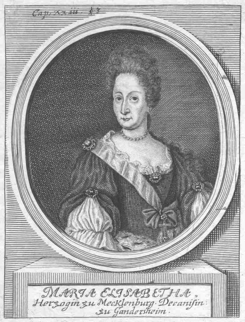 Portrait of Duchess Maria Elisabeth zu Mecklenburg-Schwerin (1646-1713) as abbess of Gandersheim